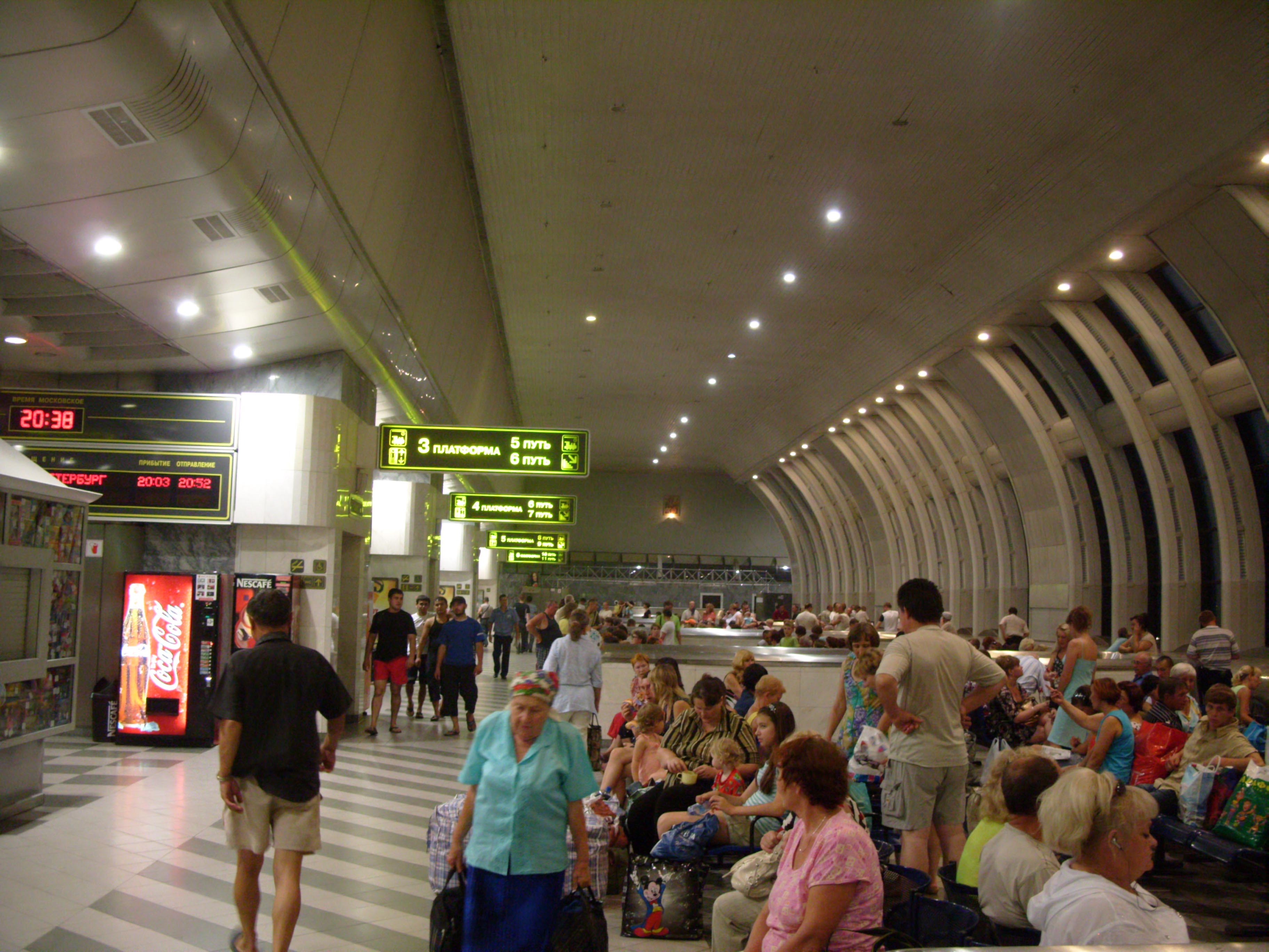 Samara train station